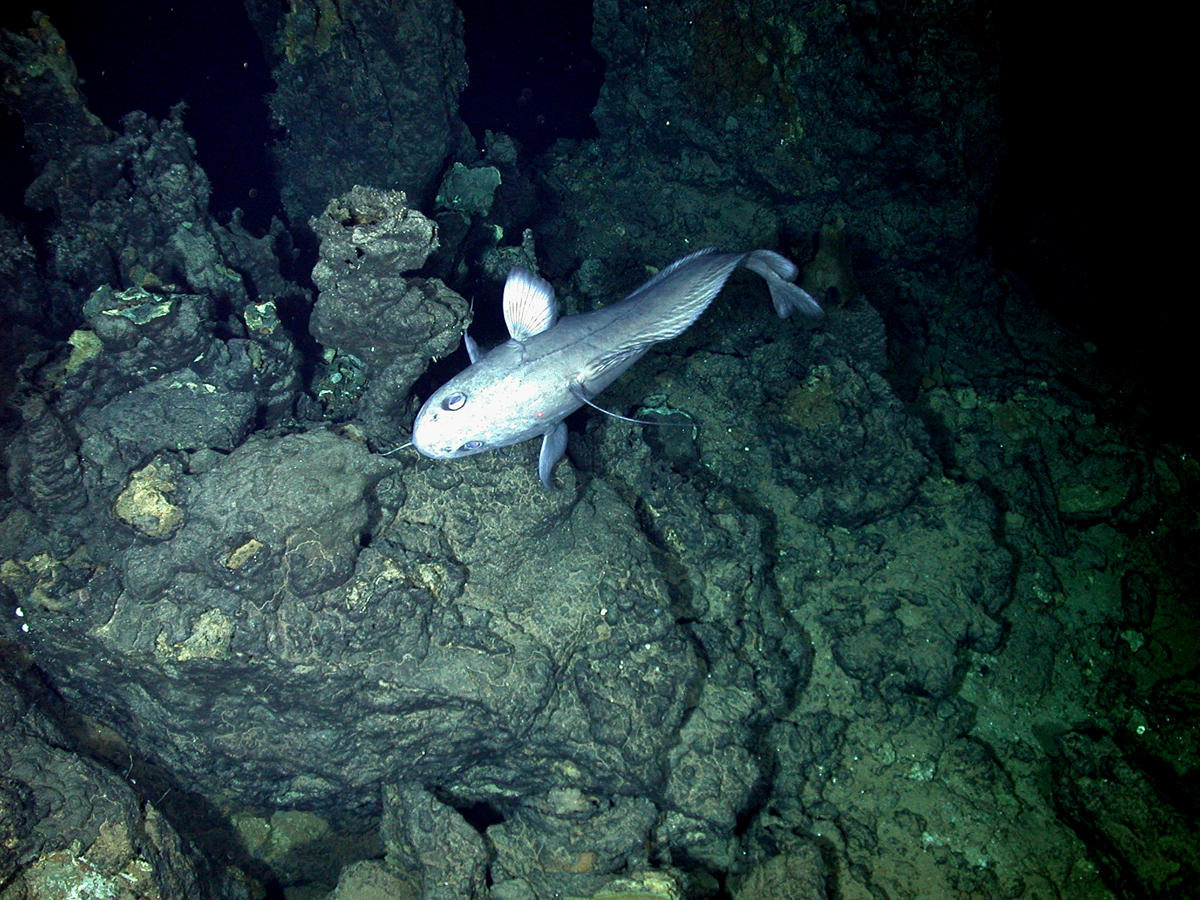 Ring of Fire 2006 Expedition. A mora hanging out near an extinct vent chimney. (it is not a grenadier because it has no rattail, but a forked caudale)